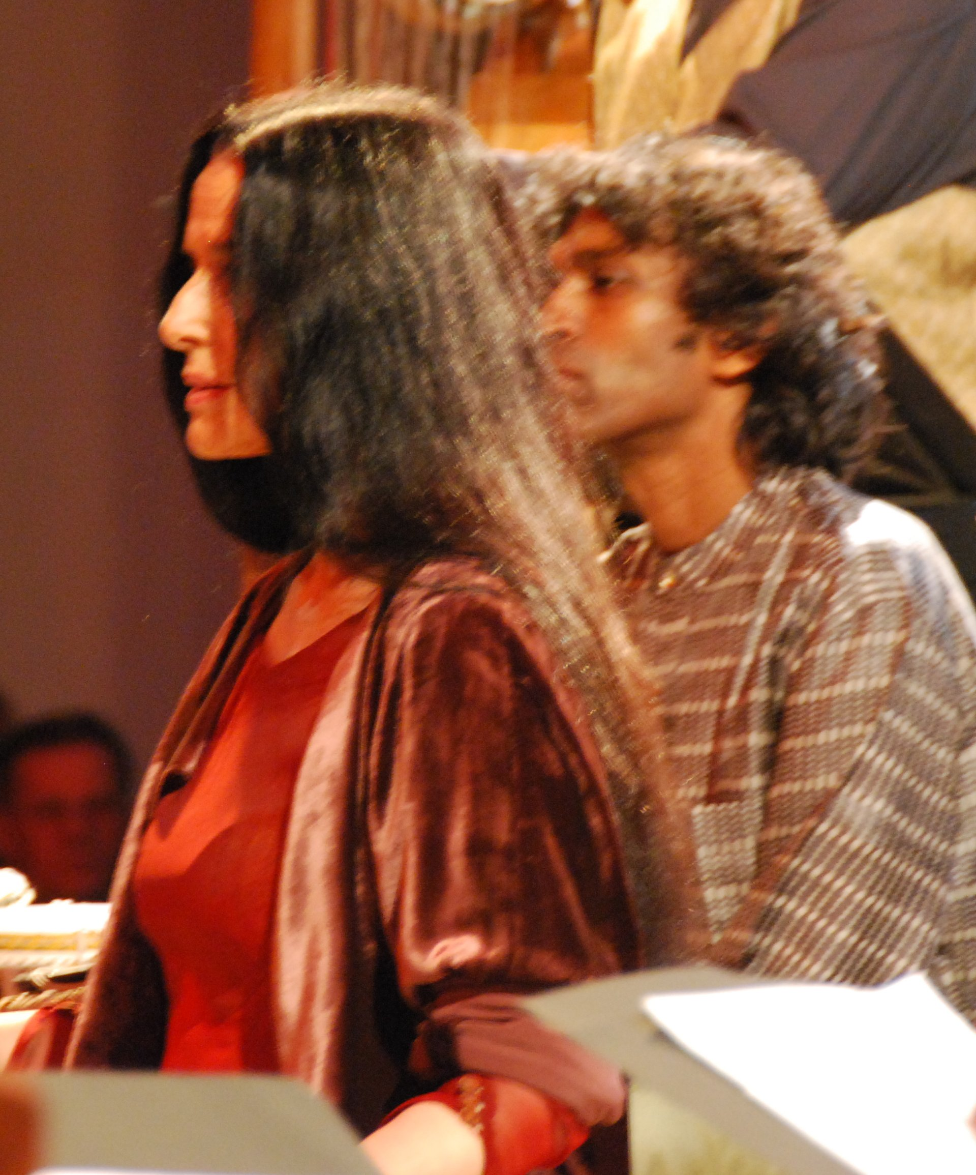 Montserrat Figueras, Kraków, 31.03.2010, Misteria Paschalia Festival.